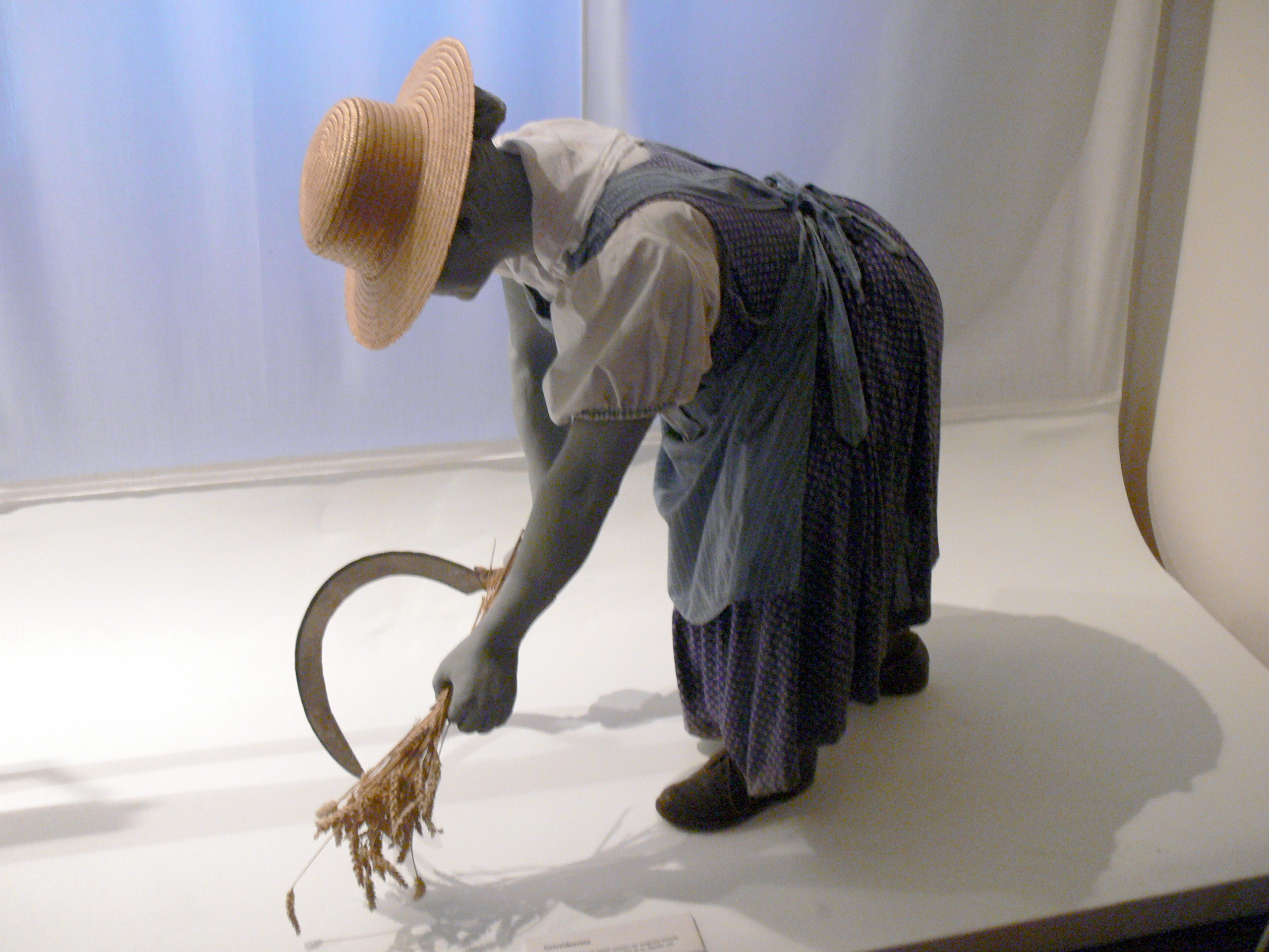 Trautenfels castle ( Styria ). Museum: Female harvester.